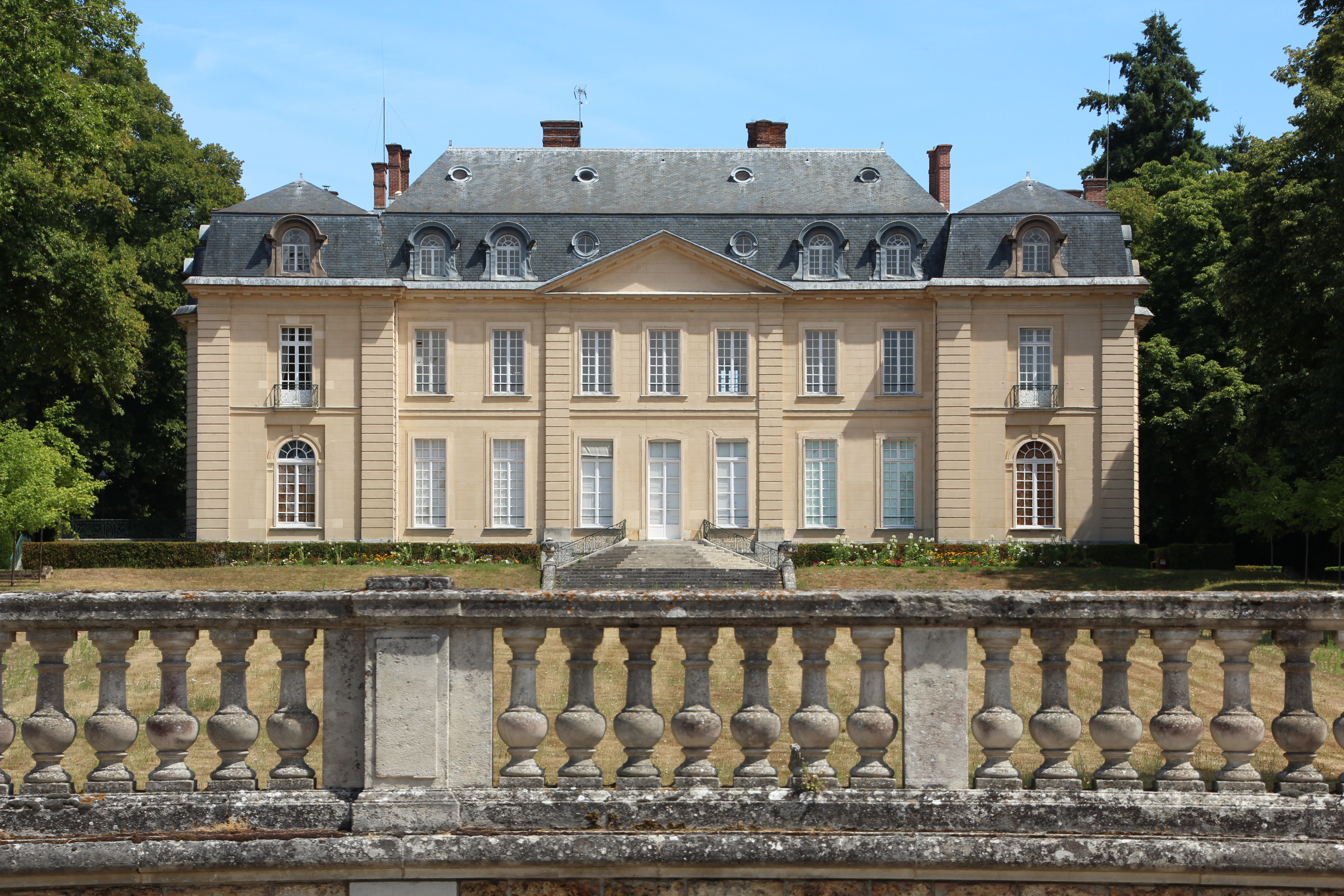 The castle of Button is located at Gif-sur-Yvette, France. It is owned by the french National Centre for Scientific Research.